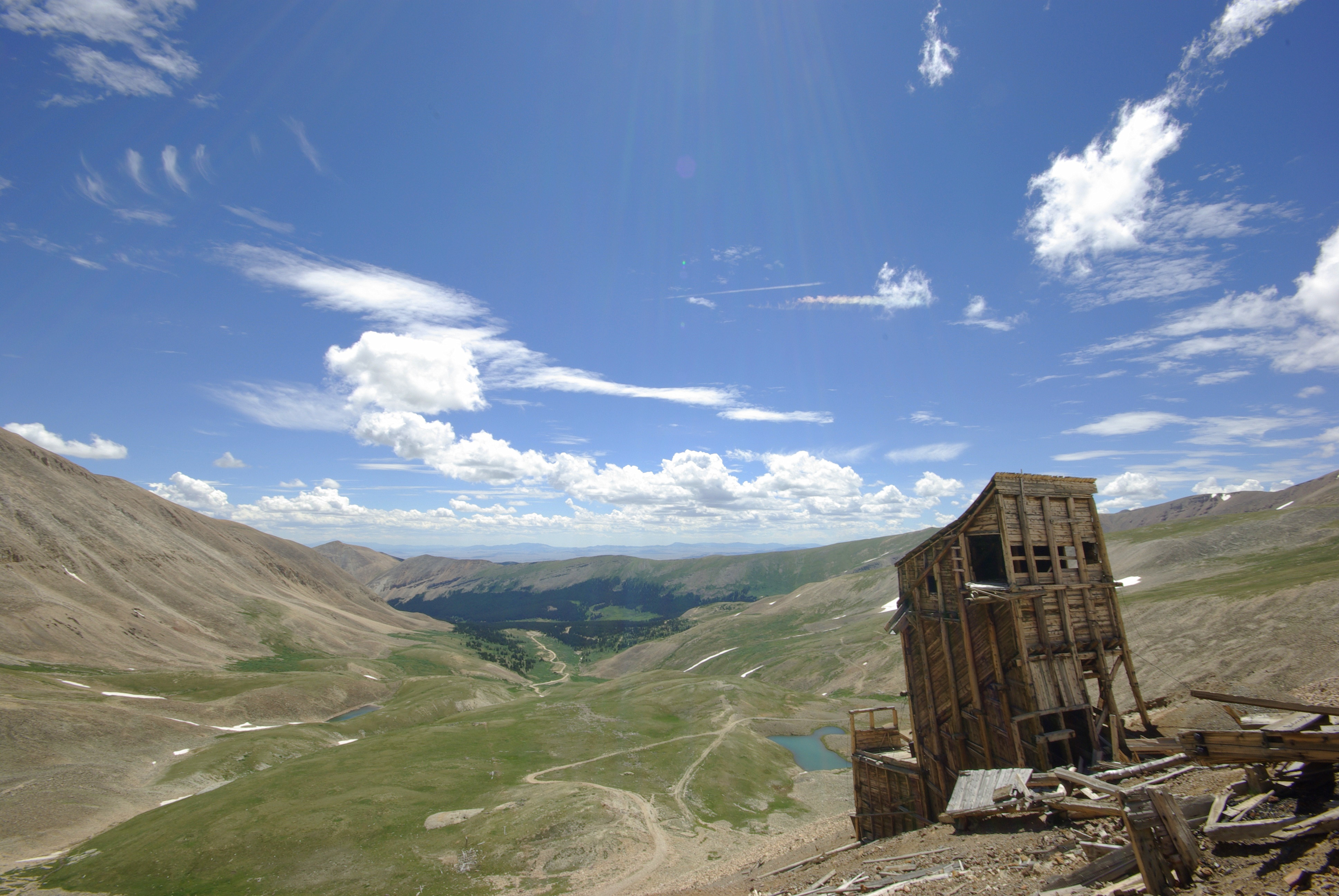 Hilltop Mine on Mount Sherman